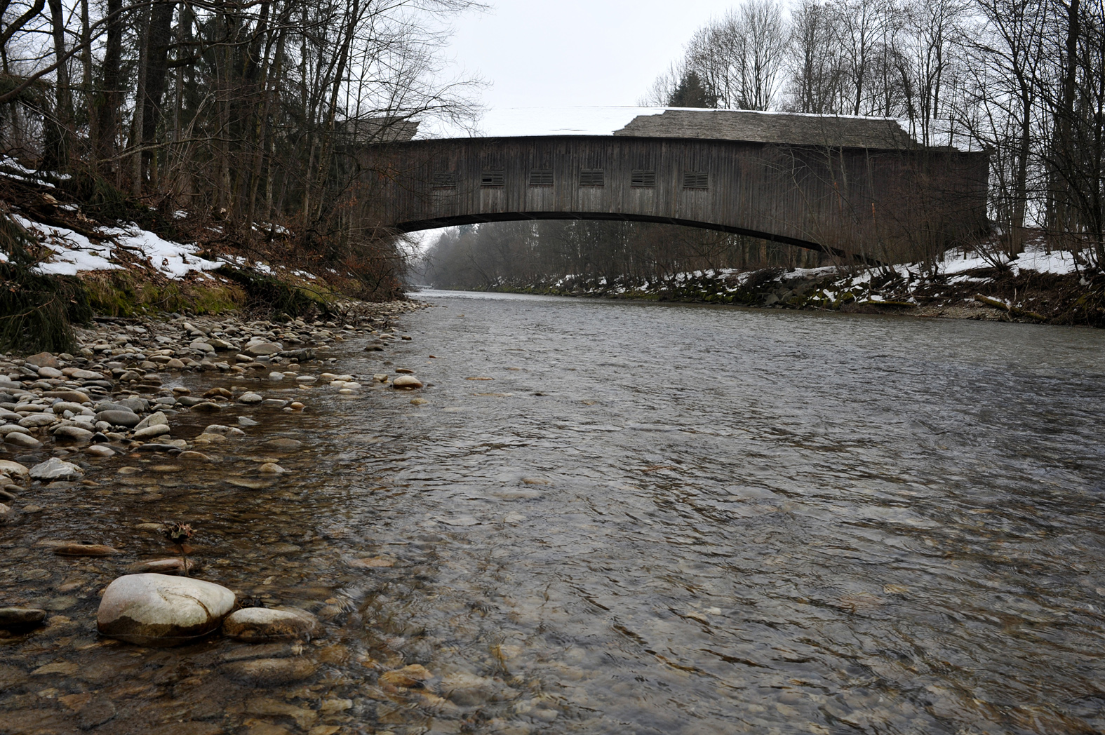 Covered wood bridge of Hasle-Rüegsau, largest wooden arch bridge of Europe; Hasle-Rüegsau, Berne, Switzerland.